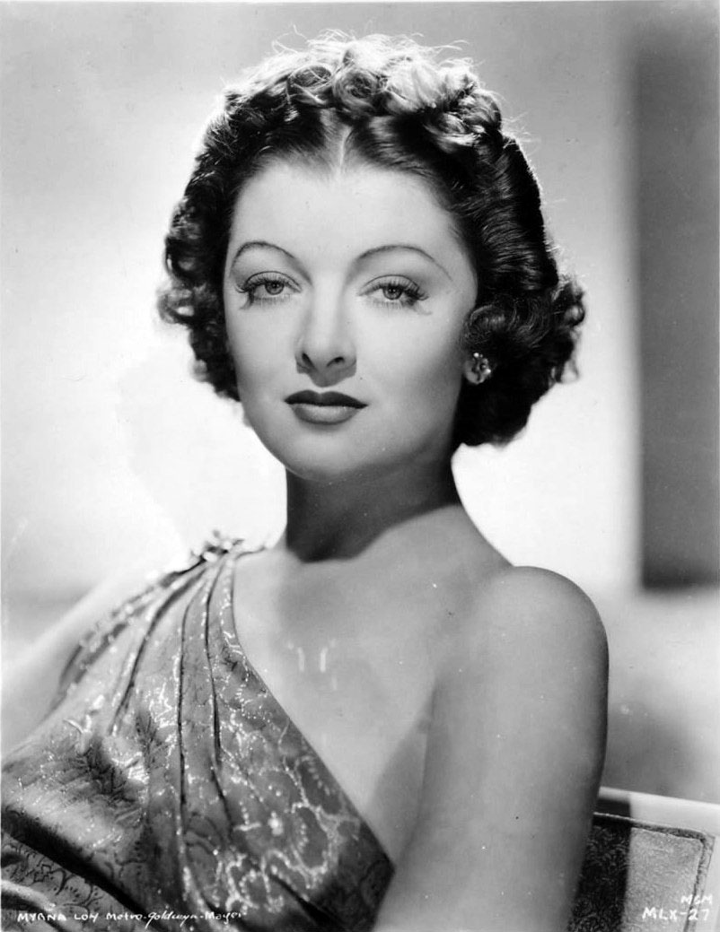 Myrna Loy in a Publicity Shot for Metro-Goldwyn-Mayer.